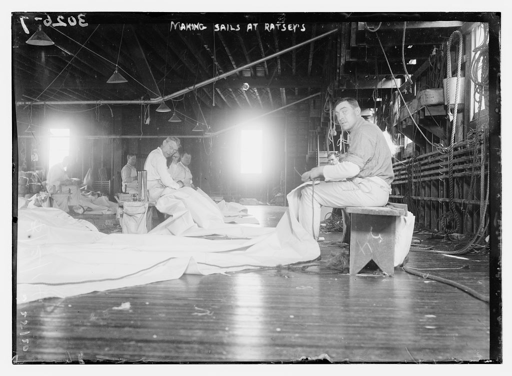 Making sails at Ratsey's (LOC) Bain News Service,, publisher. Making sails at George Colin Ratsey's company in 1914 [between ca. 1910 and ca. 1915] 1 negative : glass ; 5 x 7 in. or smaller. Notes: Title from unverified data provided by the Bain News Service on the negatives or caption cards. Forms part of: George Grantham Bain Collection (Library of Congress). Format: Glass negatives. Repository: Library of Congress, Prints and Photographs Division, Washington, D.C. 20540 USA, General information about the Bain Collection is available at Persistent URL: Call Number: LC-B2- 3026-7